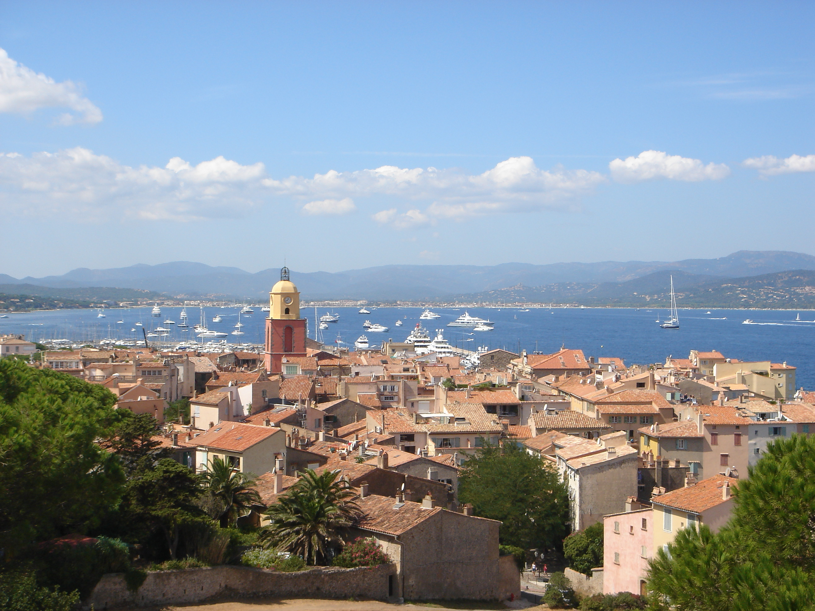 Saint Tropez Ville